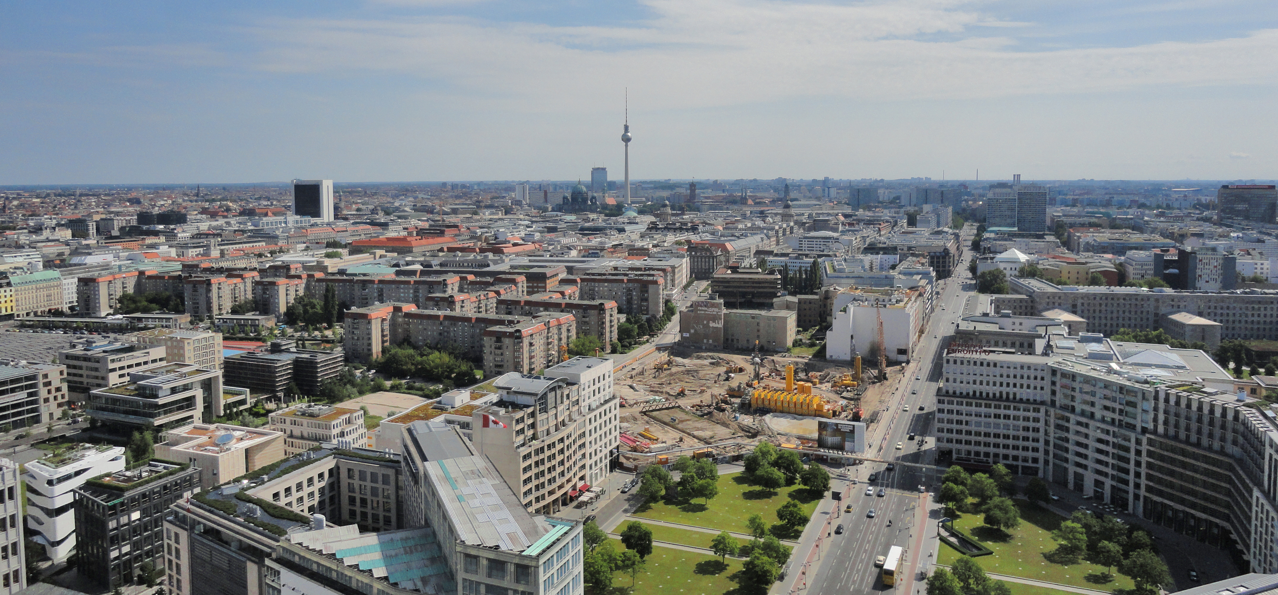 View from the Sonycentre, Berlin, Germany